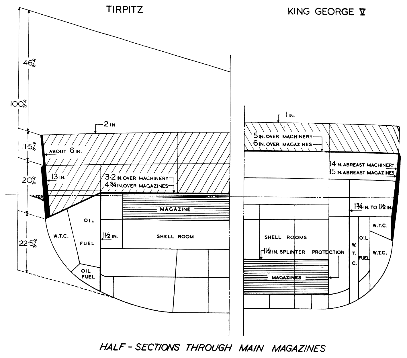 Cross sections of the battleships Tirpitz and HMS King George V, showing the arrangements of armour and underwater protection. The percentages beside the Tirpitz drawing illustrates the percentage of various parts of the ship exposed to enemy fire at 22000 yds range. The area shown by the diagonal lines, shows the parts of the ship which are not protected by the armoured citadel. The details of Tirpitz seem correct, but should be used with caution as the Royal Navy created the drawing from wartime intelligence sources.